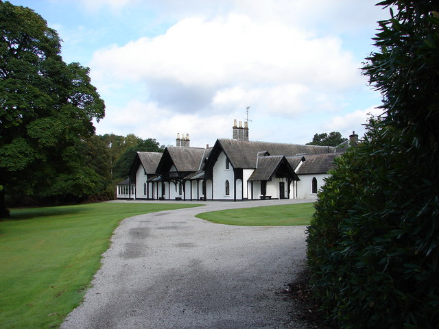 Cumloden House Large cottage orné house built 1825 for Sir William Stewart; it has carved bargeboards and prominent eaves and a verandah at the entrance.